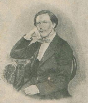 Nikolay Dobrolubov